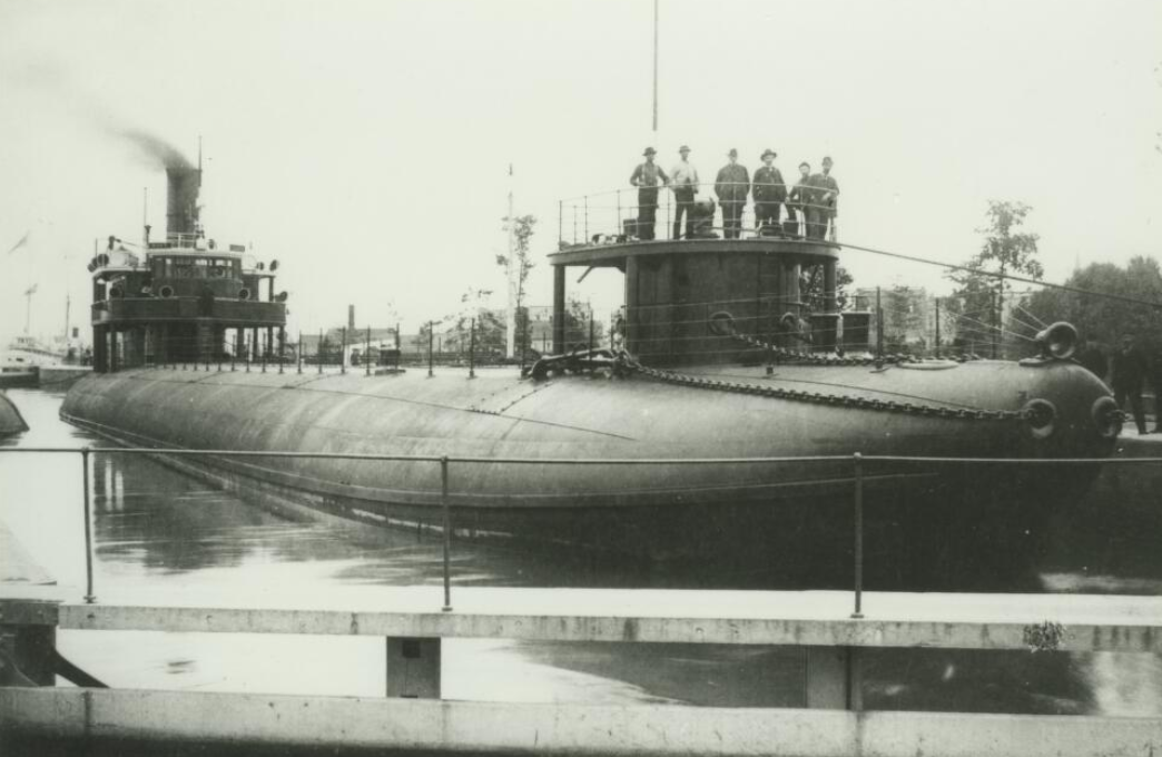 The whaleback steamer Colgate Hoyt in the Soo Locks